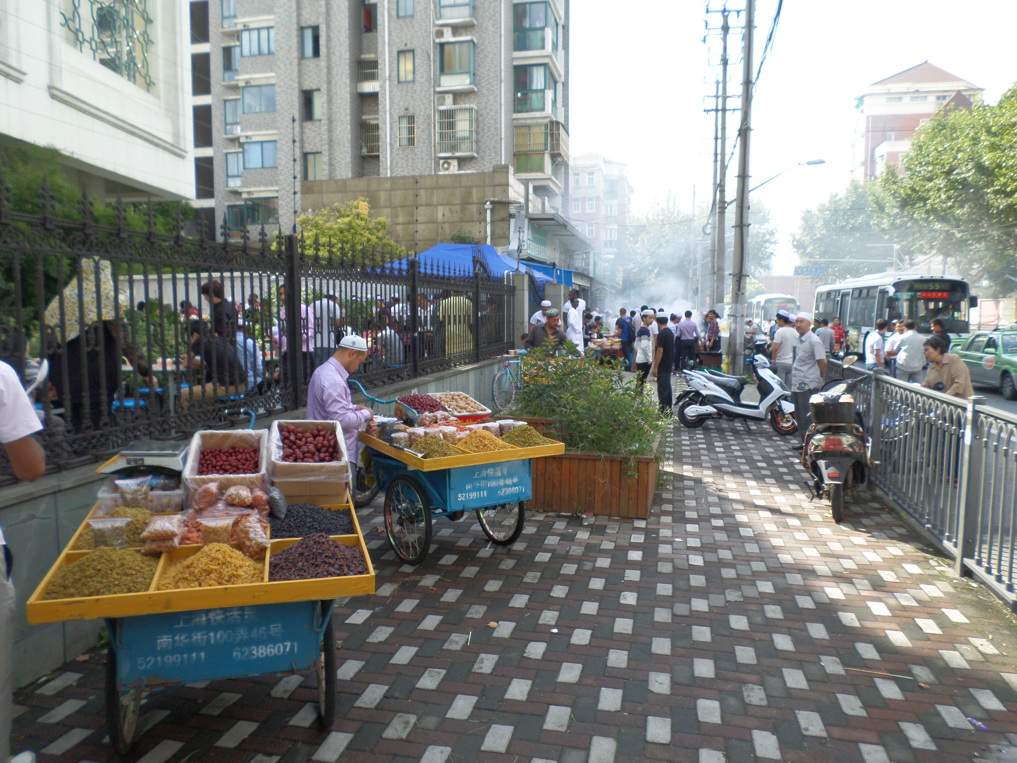 Jiangwan Mosque, Yangpu District, Shanghai, China